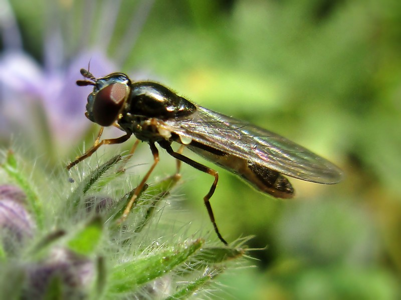 Melanostoma mellinum (Syrphidae sp.) female, Elst (Gld), the Netherlands